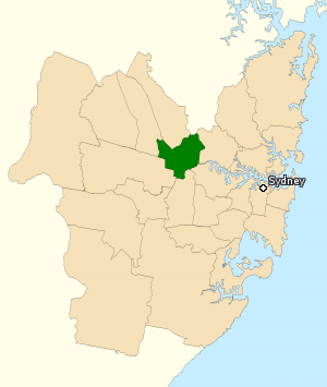 Incorporates or developed using Administrative Boundaries ©PSMA Australia Limited licensed by the Commonwealth of Australia under Creative Commons Attribution 4.0 International licence (CC BY 4.0). Derived from State and Territory Boundaries from the Australian Bureau of Statistics under Creative Commons Attribution 2.5 Australia license (CC BY 2.5 AU)